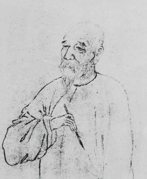 Detail of Wu Rangzhi(1799-1870) Portrait by the painter-monk Hua_lian (19th century) in 1880 in order to attach to Wu's Calligraphy work. Wu Rangzhi is a Chinese painter, seal carver and calligrapher during the Qing Dynasty (1644-1912).